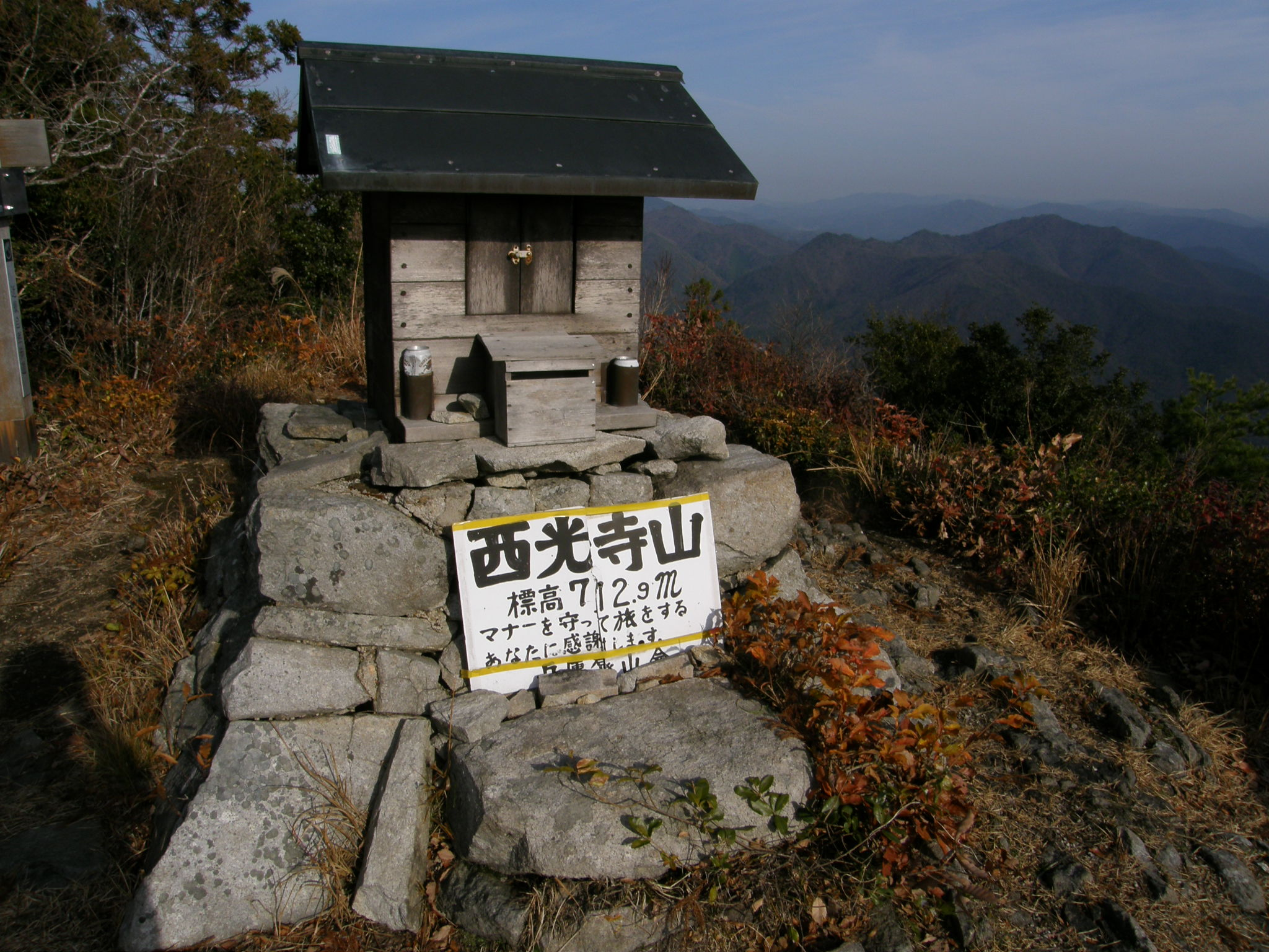 Mt.Saikoji